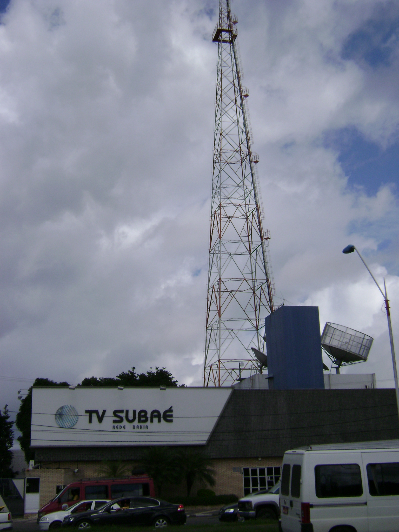 Centro da TV Subaé, em Feira de Santana.